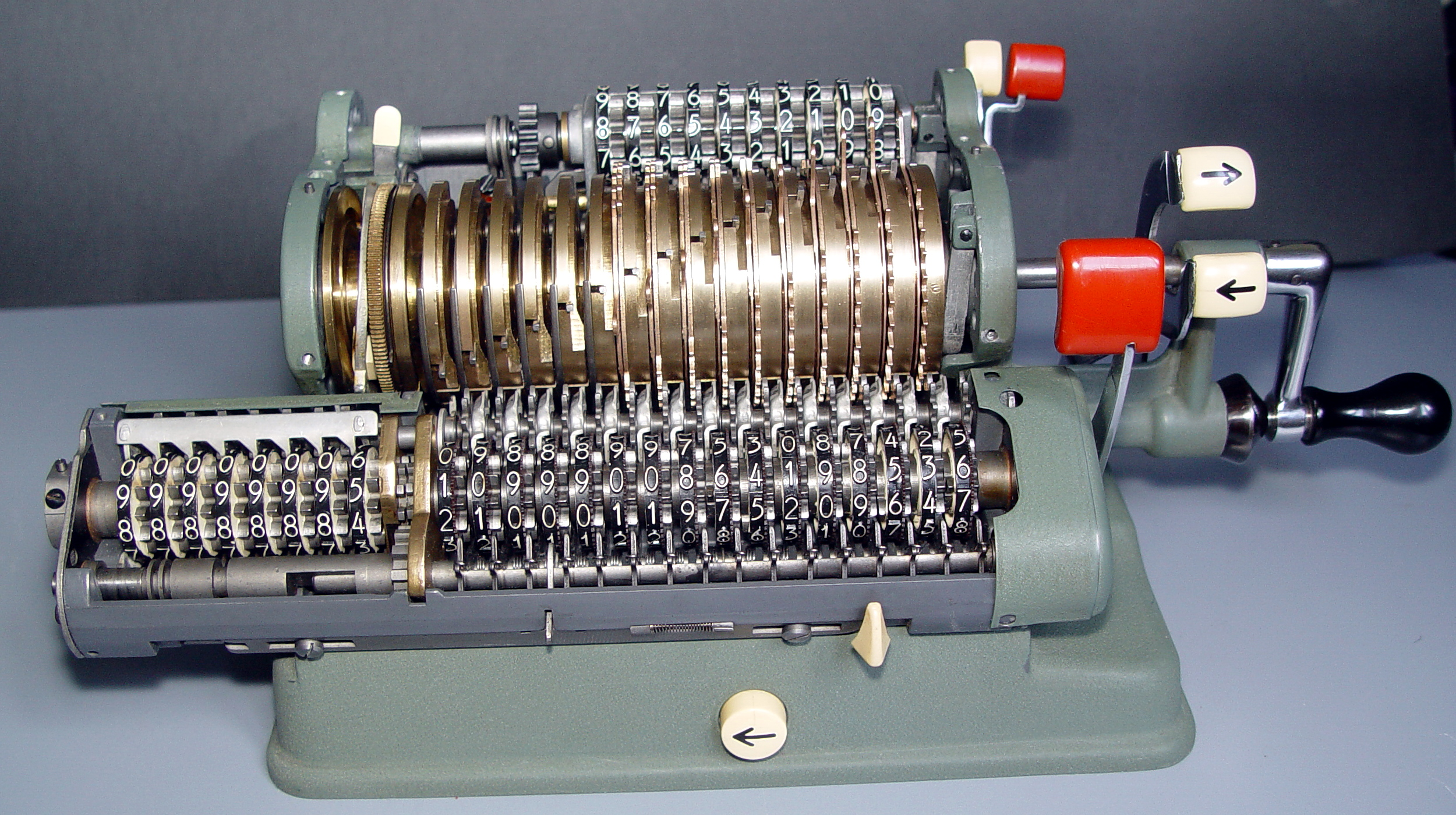 Walther WSR-16 pin-wheel calculator Digits: 10 rotor, 8 counter, 16 accumulator Manufactured: Walther, Germany, 1950s. With front covers removed, showing the pinwheels, at the top, the accumulator register below, and the revolutions register on the left.